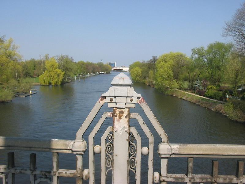 View from the Freybrücke (bridge) to the Havel and to the Tiefwerder Wiesen (on the right). Tiefwerder is a former village, founded in 1816, in Berlin-Spandau and an ait in Berlin-Wilhelmstadt from river Havel. The Tiefwerder Wiesen (meadows) are a protected area (german: Landschaftsschutzgebiet) and Berlins last natural flood plain and last spawn-area for the Northern pike.